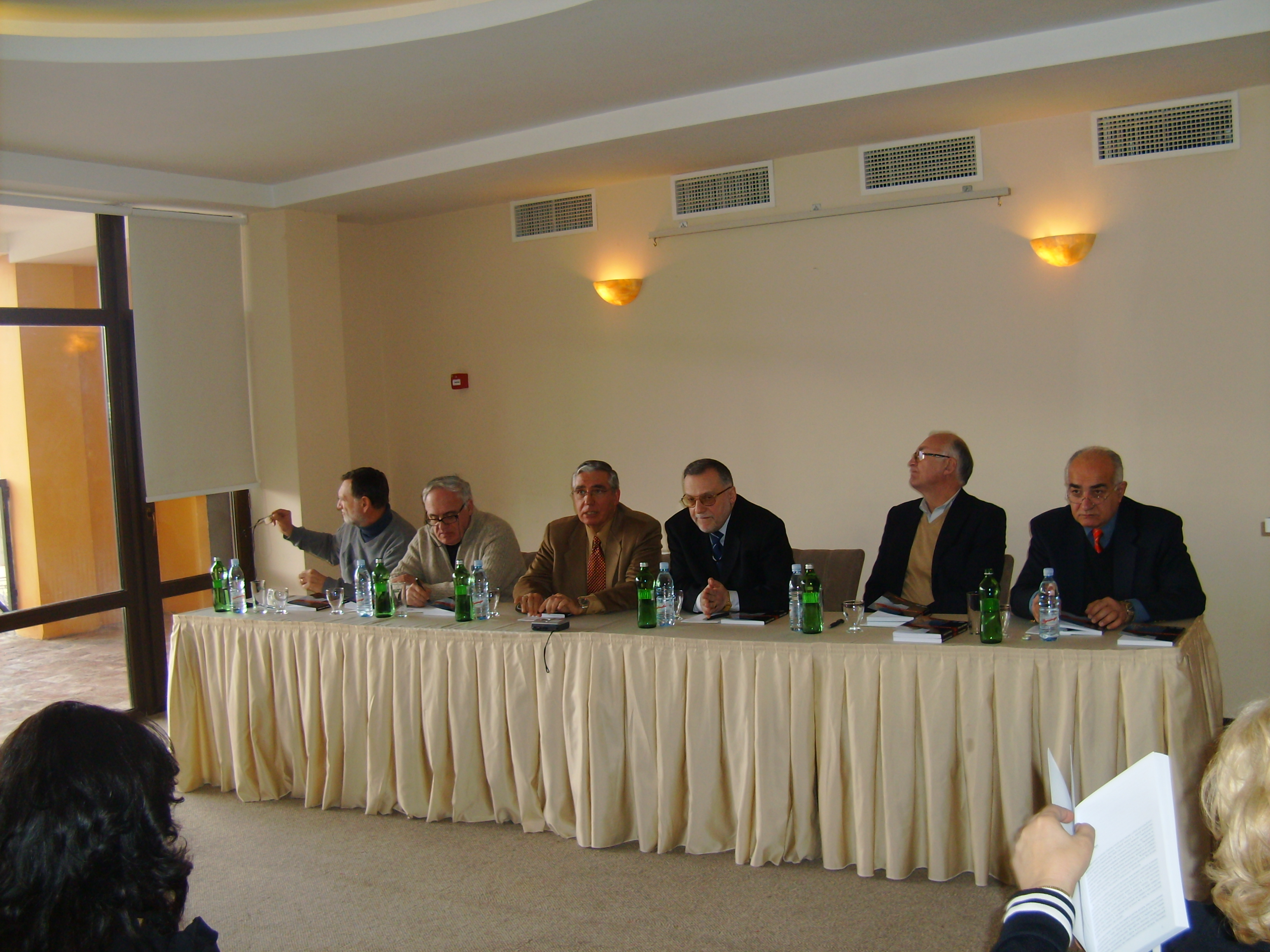 Георгий Хуцишвили